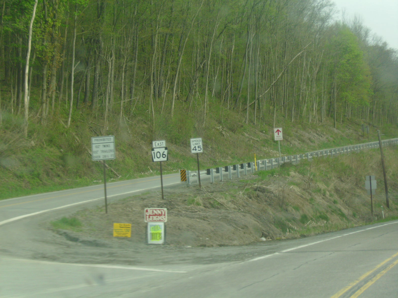 PA Route 106 (former US Route 106) heading eastbound from U.S. Route 11 in Kingsley.